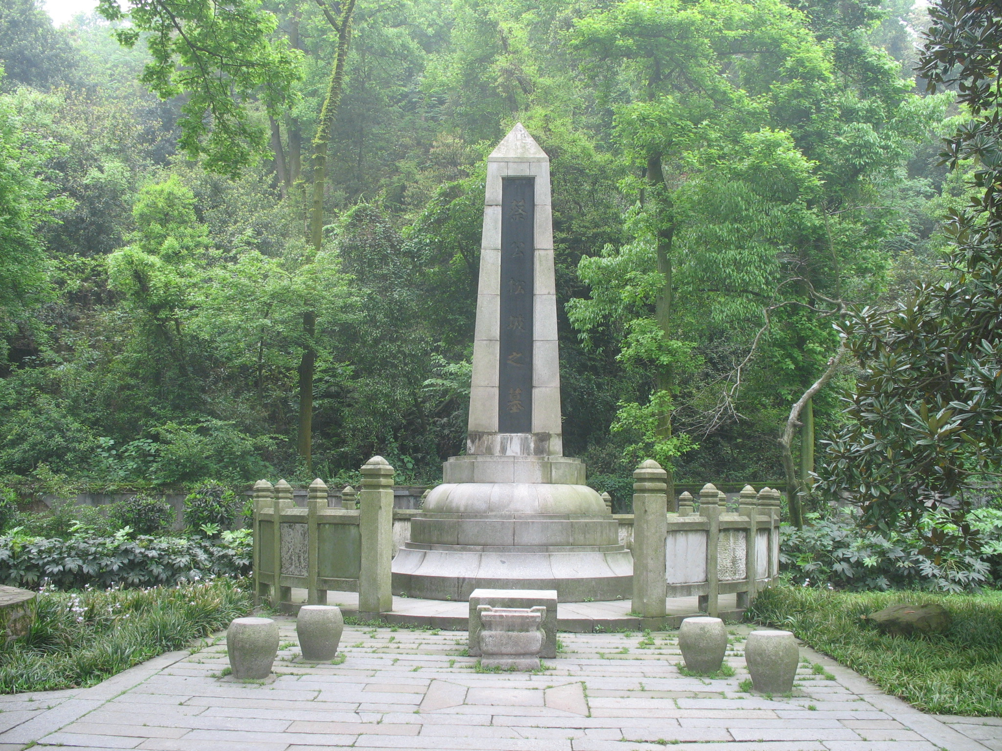 cai e's tomb 中文（中国大陆）: 蔡锷墓